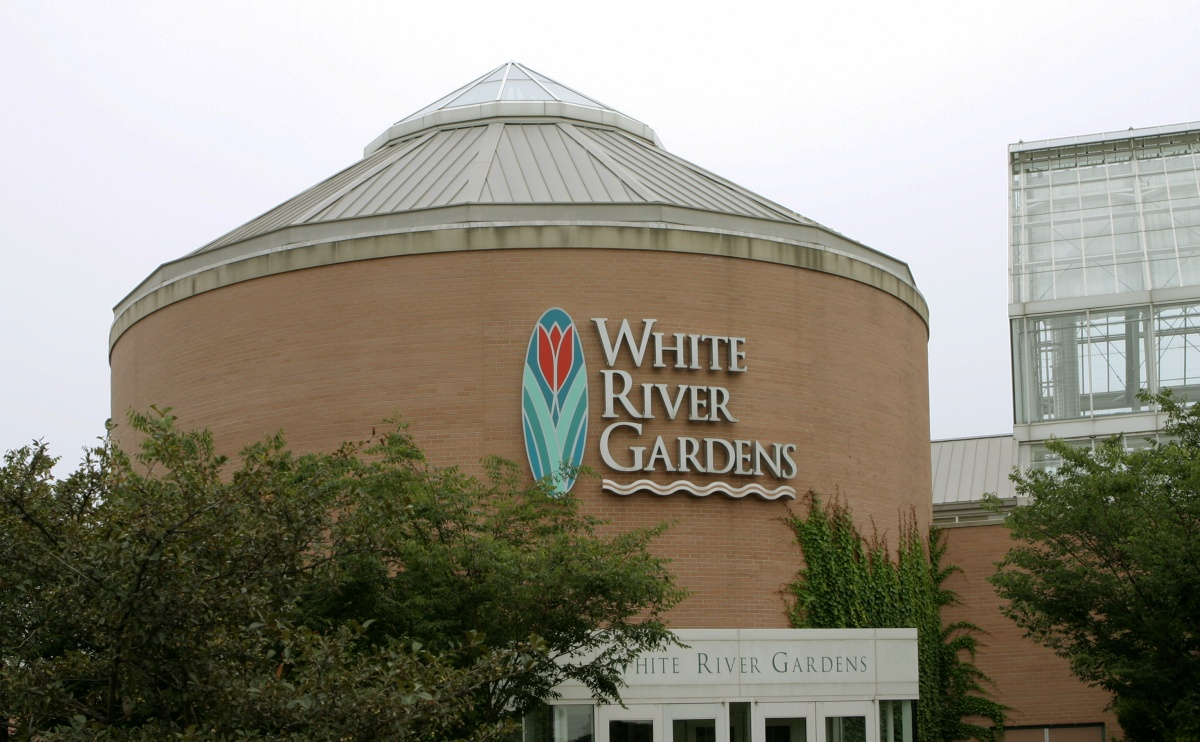 White River Gardens entrance.